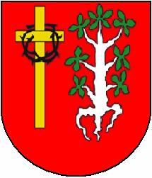 Coat of arms of the district of Entlebuch, Canton of Lucerne, Switzerland